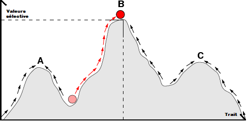 Selection trait